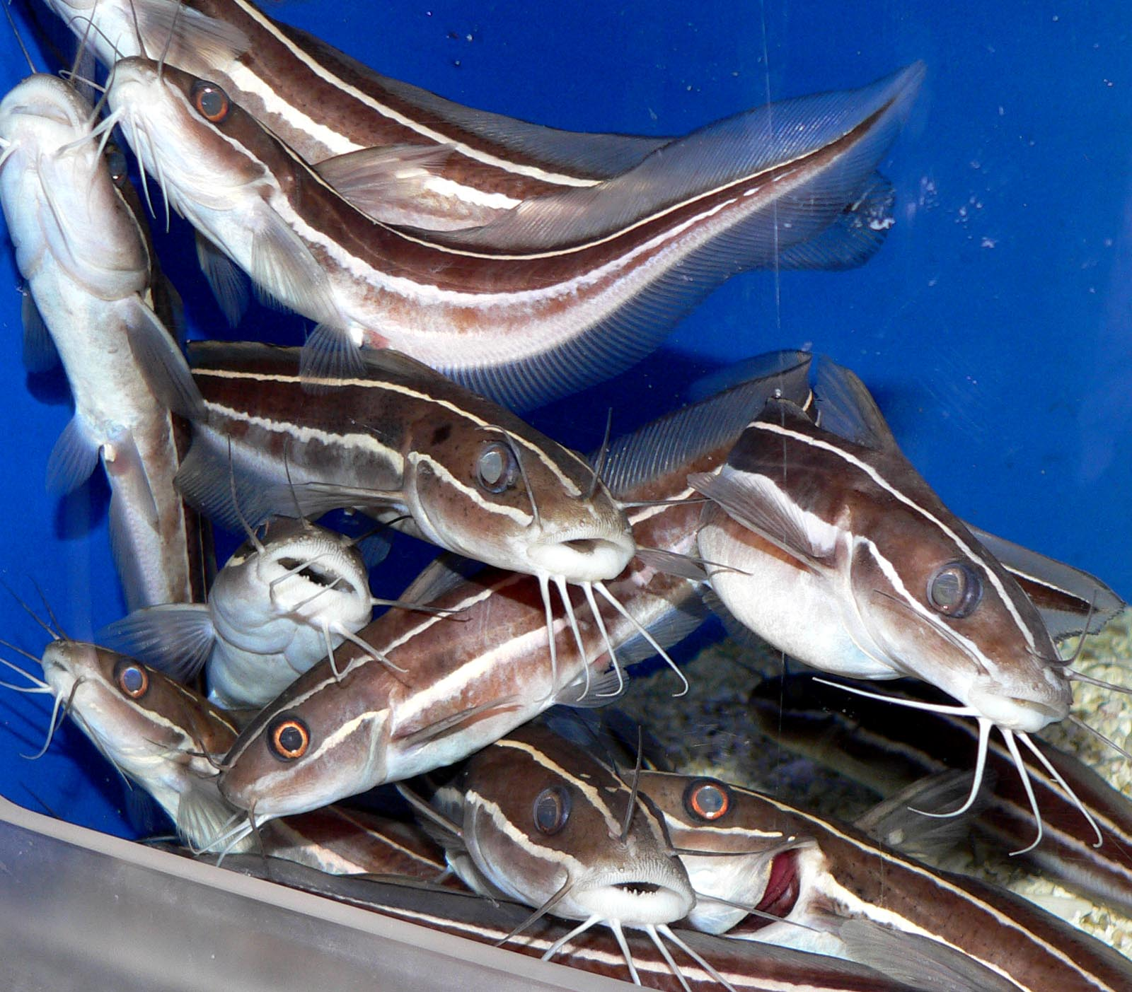 Photo of Plotosus lineatus (striped eel catfish) at the Steinhart Aquarium in San Francisco